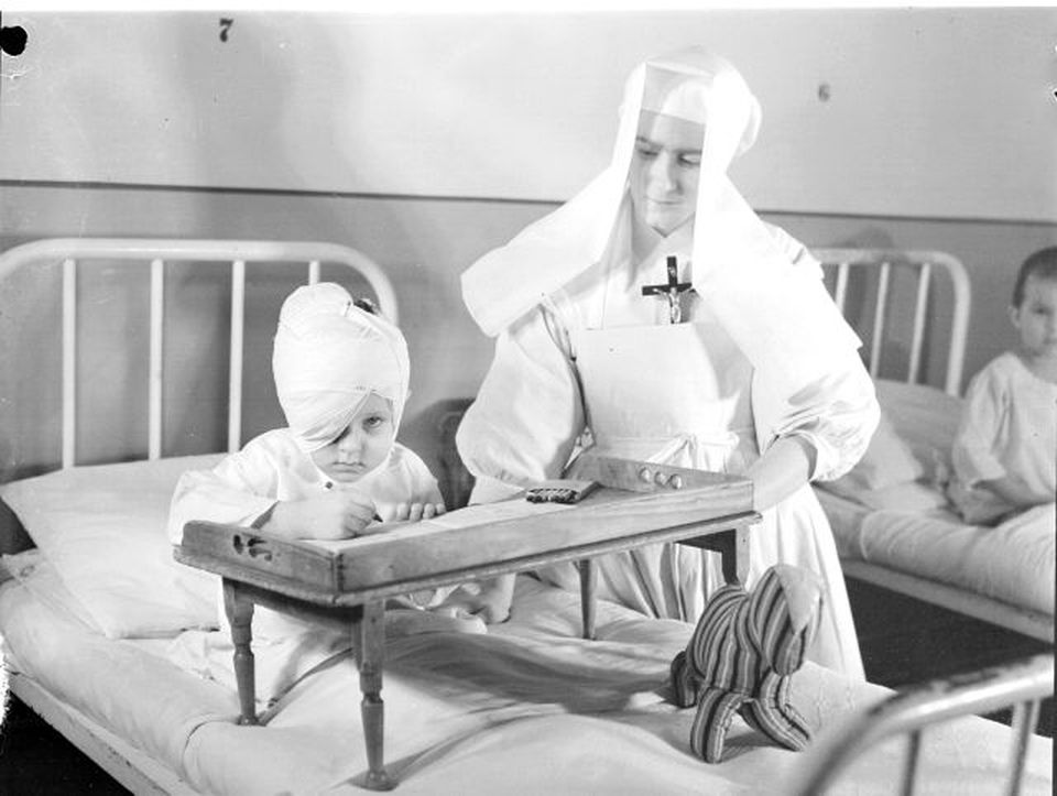 A child whose head is surrounded by a large bandage color in a small office installed on his bed of a dormitory of the Sainte-Justine Hospital in Montreal. A nun of the Daughters of Wisdom stands at his side.